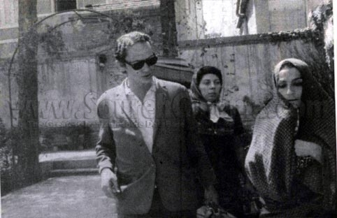 Aramesh Dar Hozor Digaran